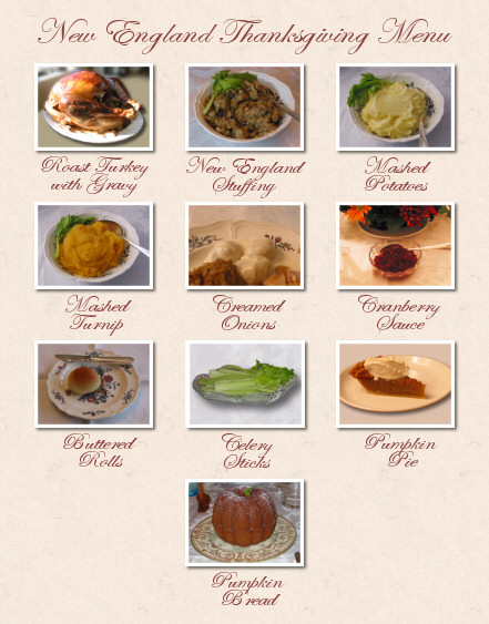 A New England Thanksgiving dinner, served in Falmouth, Maine, USA on November 24, 2005. All pictures were taken by me, alcinoe, and the final graphic was made by me.